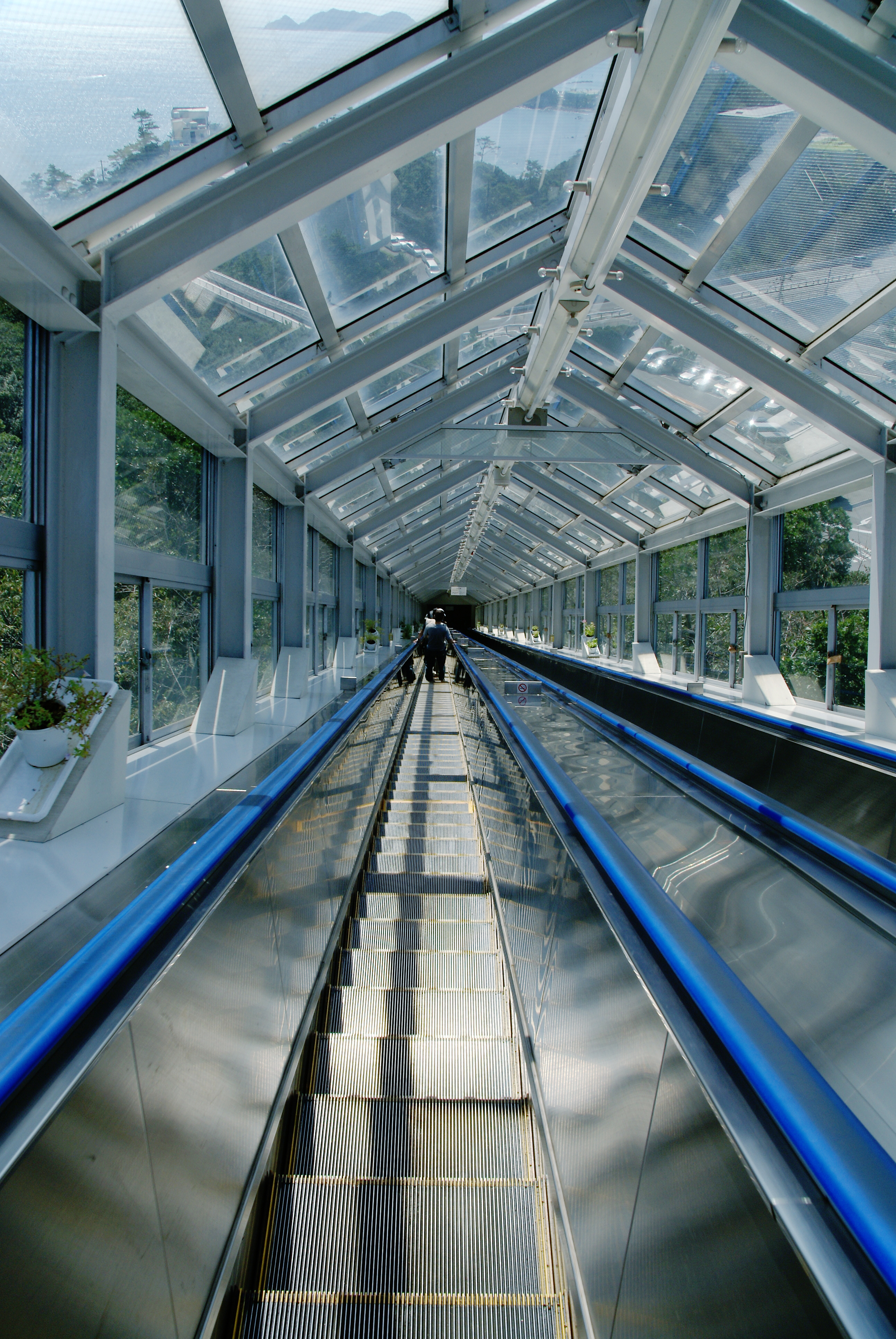 "Eskahill Naruto" in Naruto, Tokushima prefecture, Japan